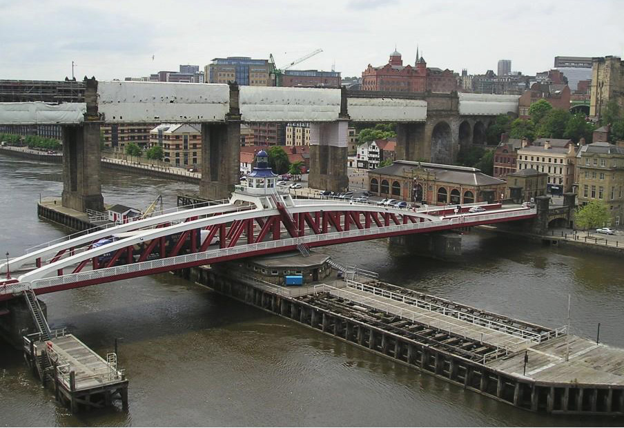 Stitched photograph taken from the Tyne Bridge in 2006 looking towards the swing bridge, the high level bridge and Newcastle upon Tyne in general.